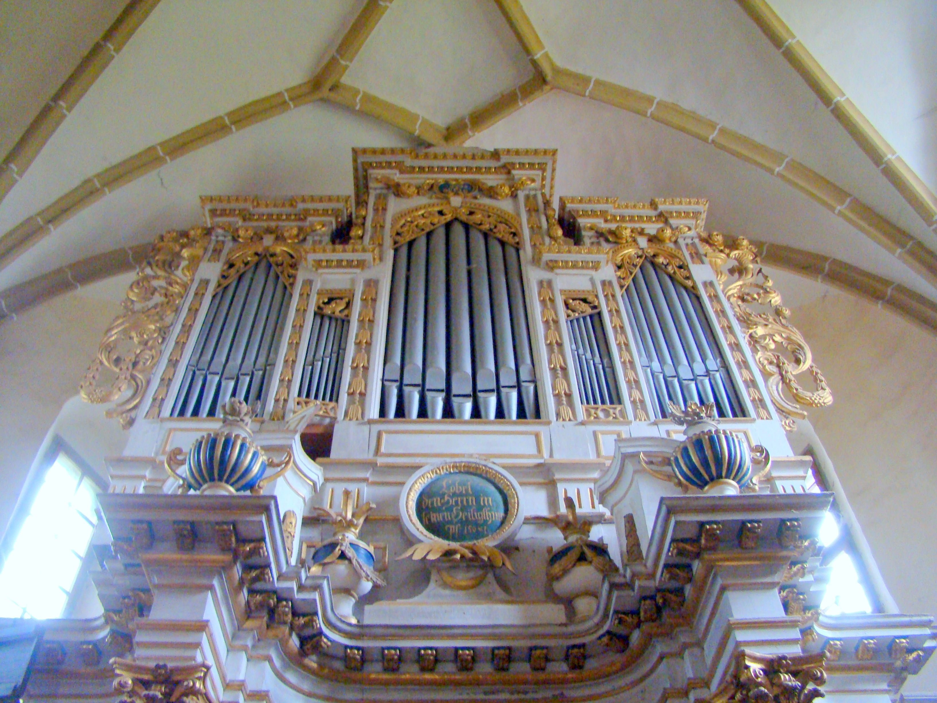 Fortified church in Dacia, Brașov County, Romania